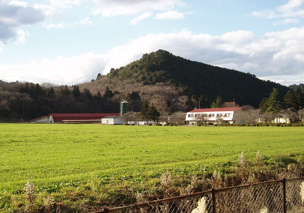 Livestock Farm of the Faculty/Graduate School of Agriculture, Kyoto University, located in Kyotamba, Kyoto, Japan.